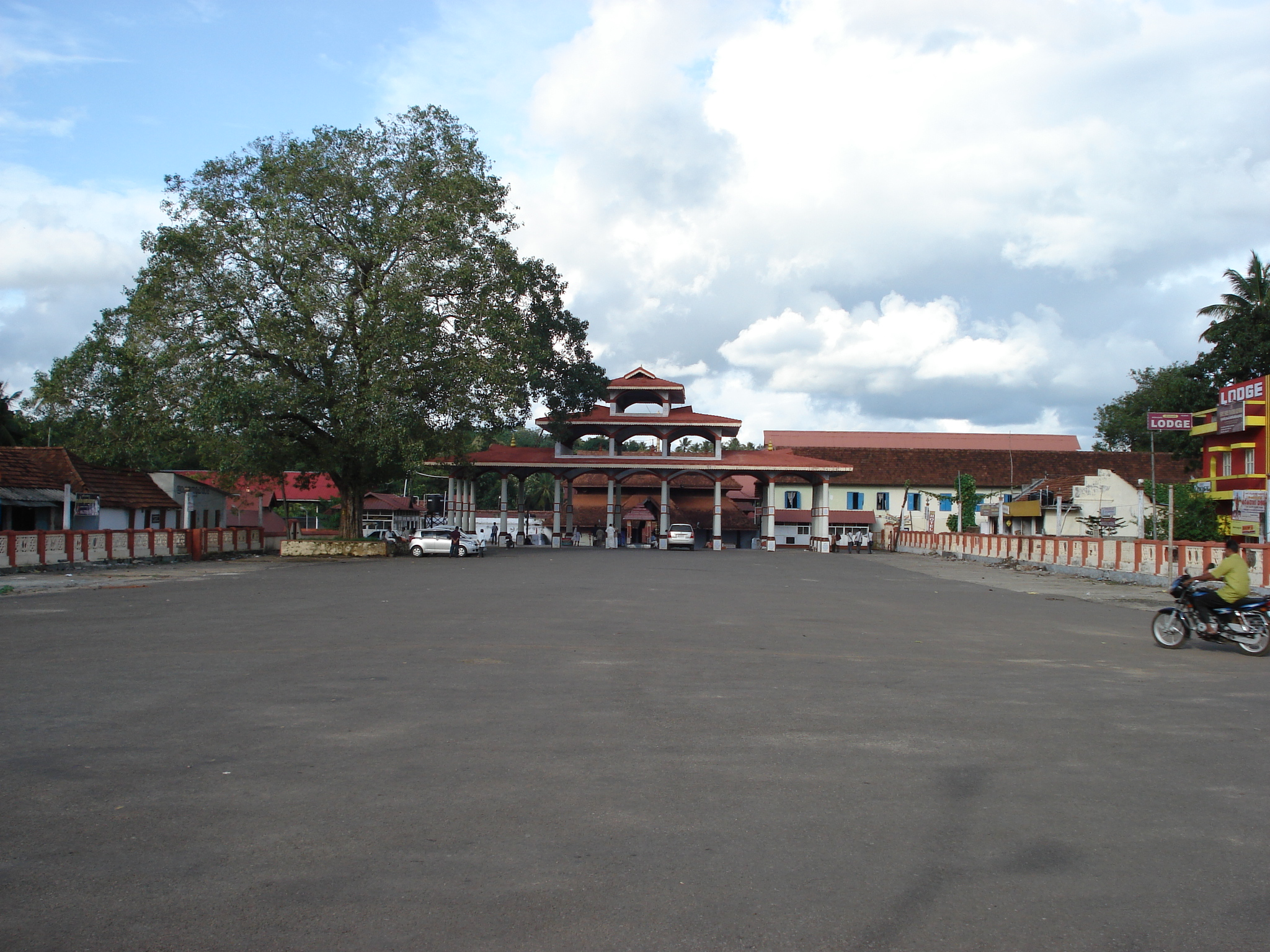 A distant view of Ettumanoor Temple